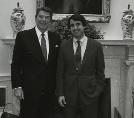 Ronald Reagan with Richard Bond in 1982 in Oval Office